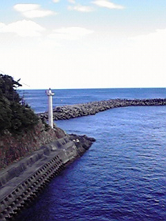 This is a lighthouse in Shima city,Mie Prefecture,Japan.